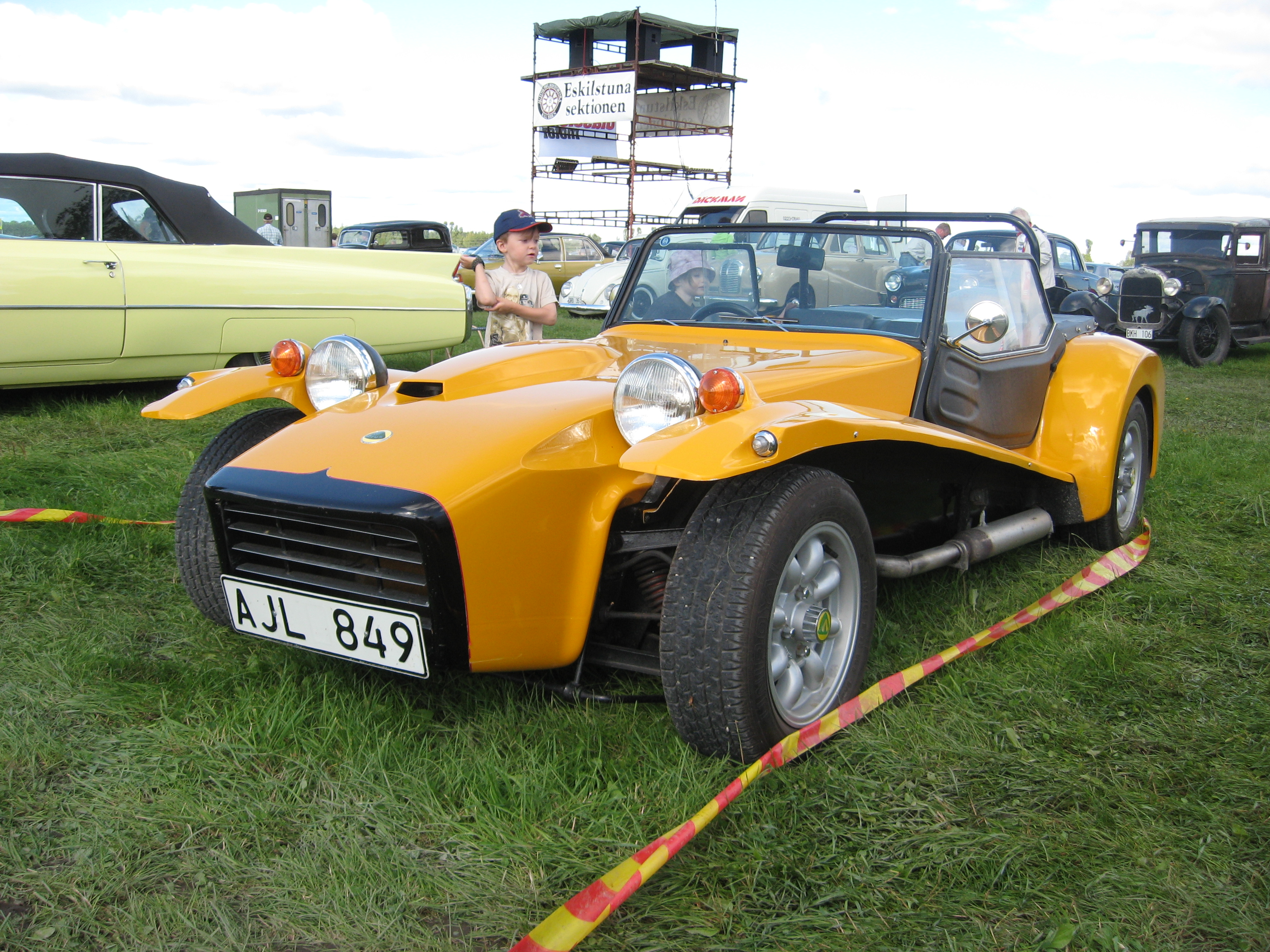 Lotus 7 Series 4